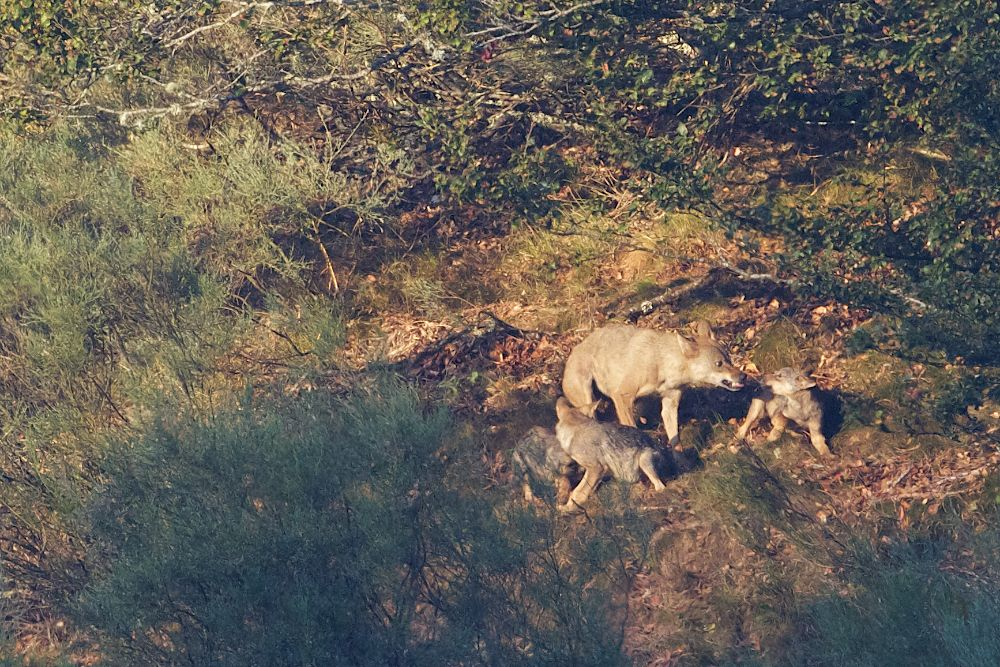 Iberian Wolf pups stimulating the alpha female to regurgitate some meat 1